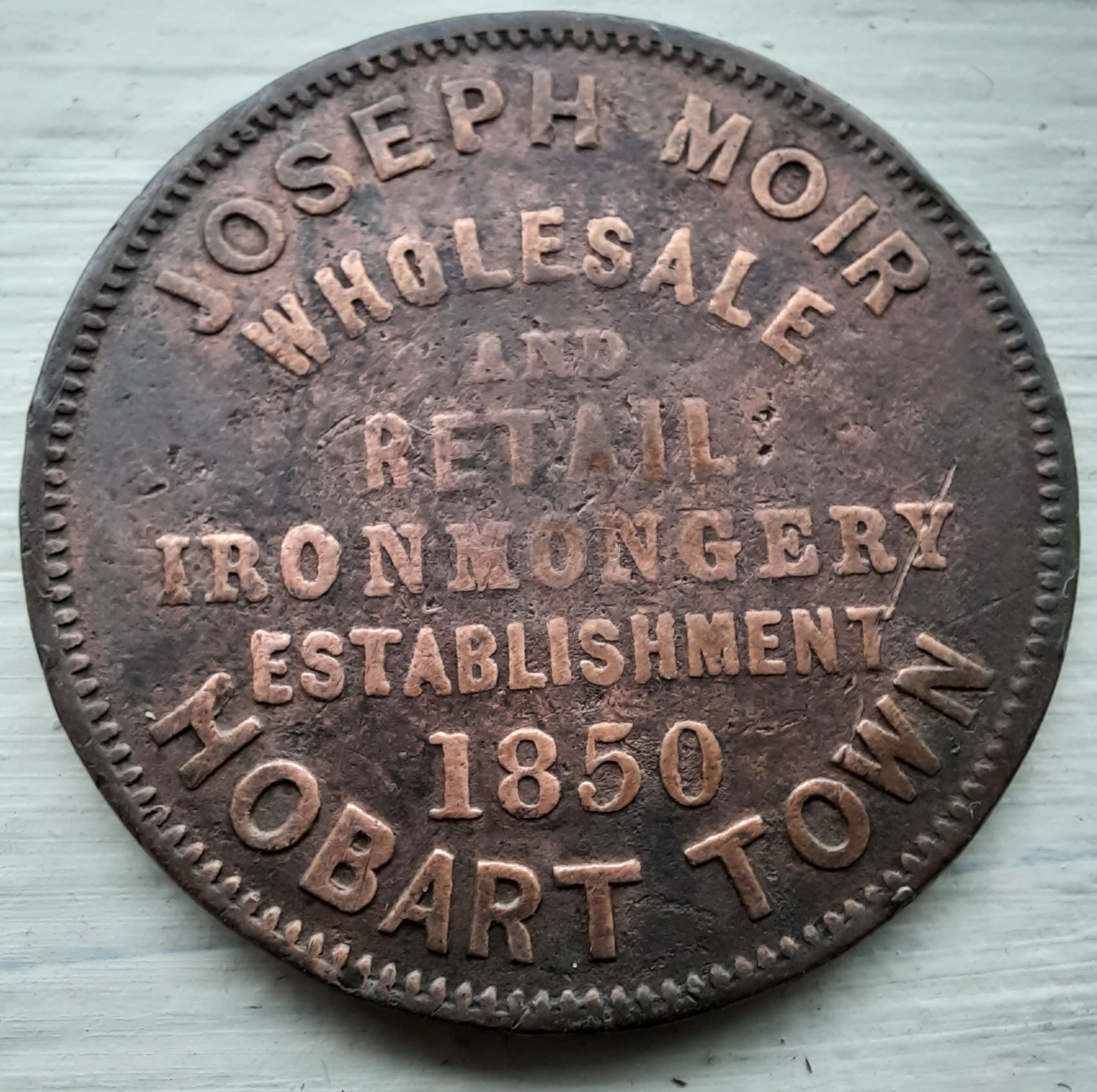 One penny token issue by Joseph Moir